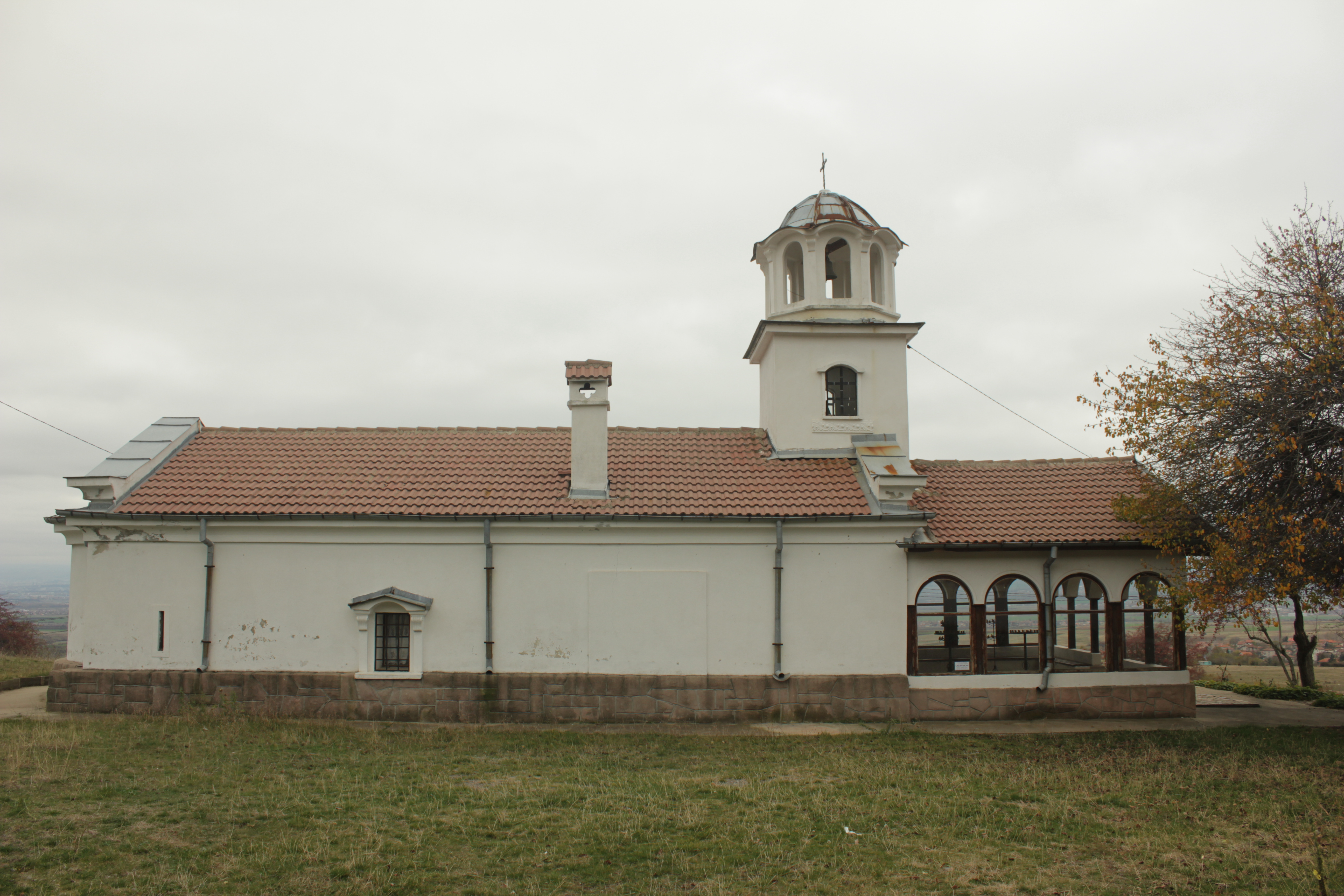 Theodore Stratelates Monastery church of Balsha, Bulgaria